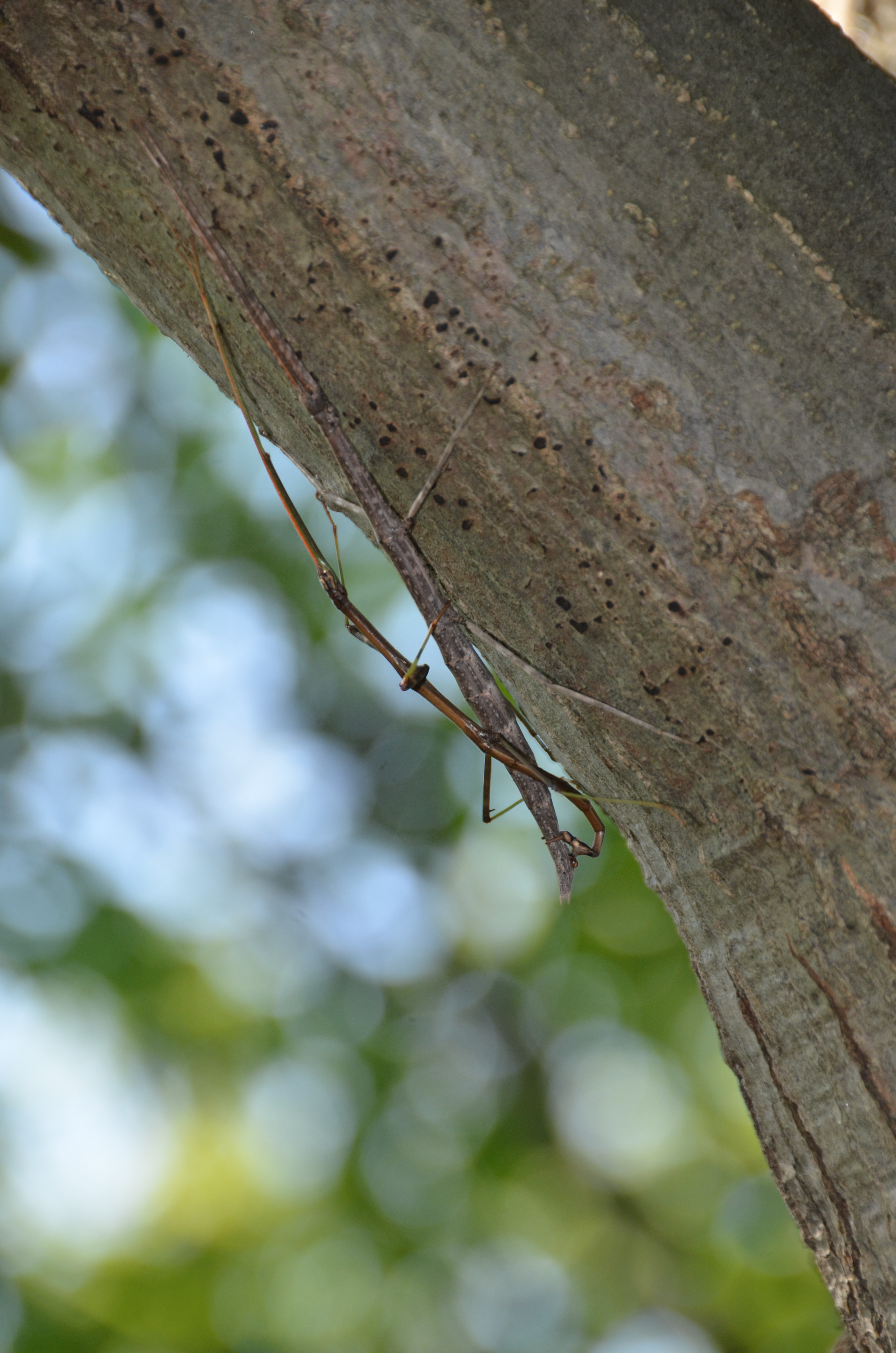 An original photograph of two Diapheromera femorata mating. Picture taken at Breakneck Ridge, Beacon, NY on August 4th, 2012.